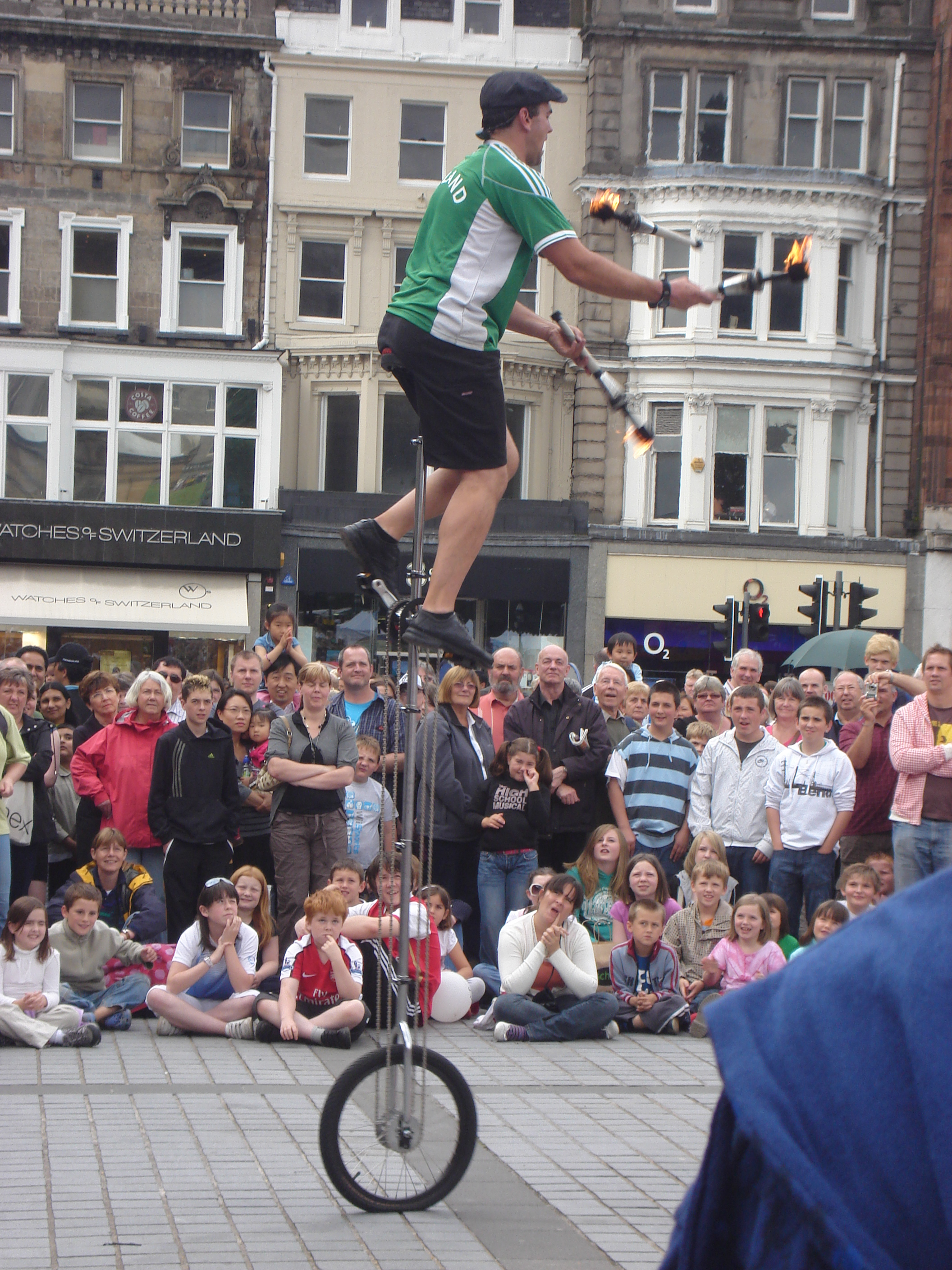 Street entertainer at Edinburgh Festival 2008. Tough crowd to impress :o).